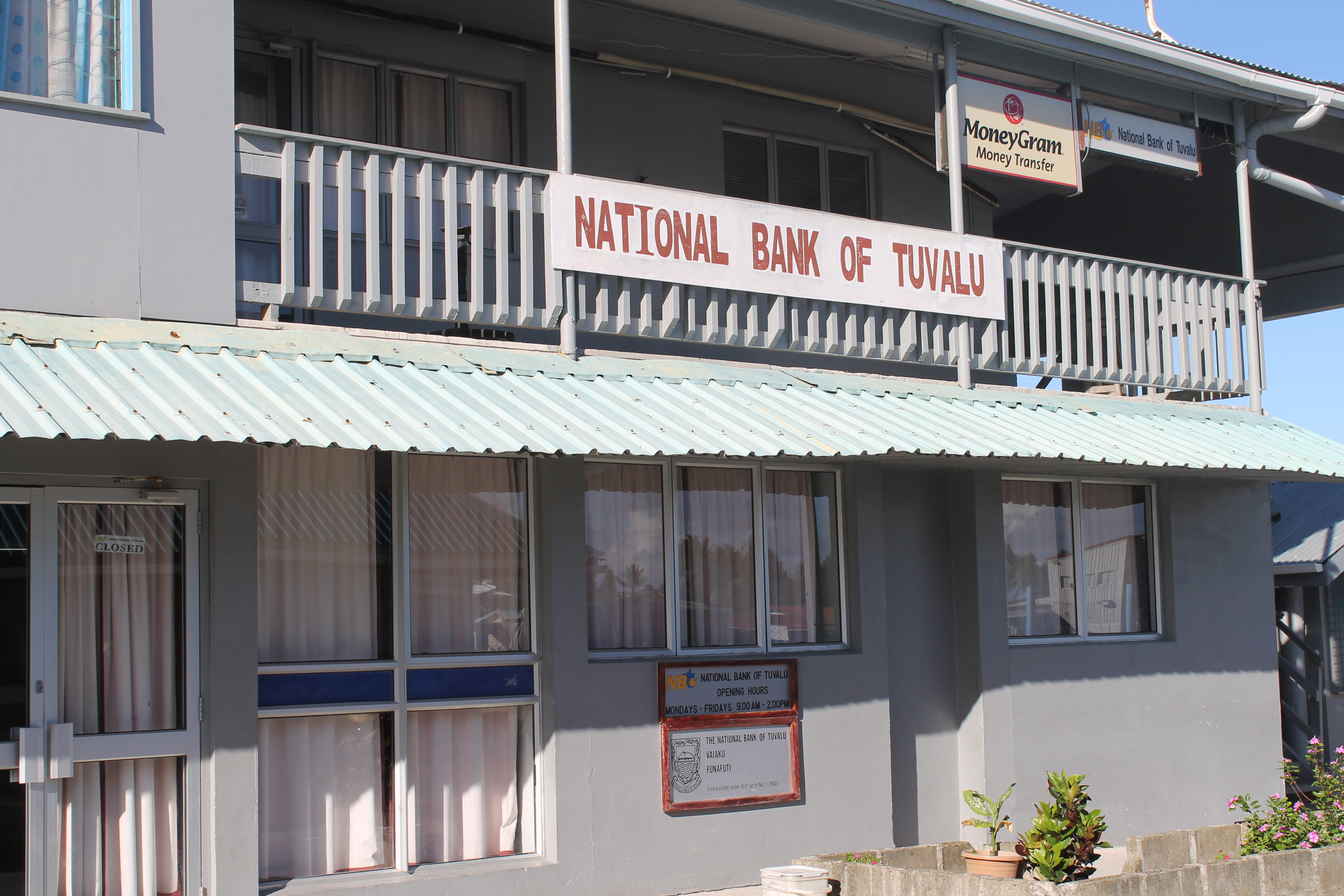 National Bank of Tuvali in Funafuti